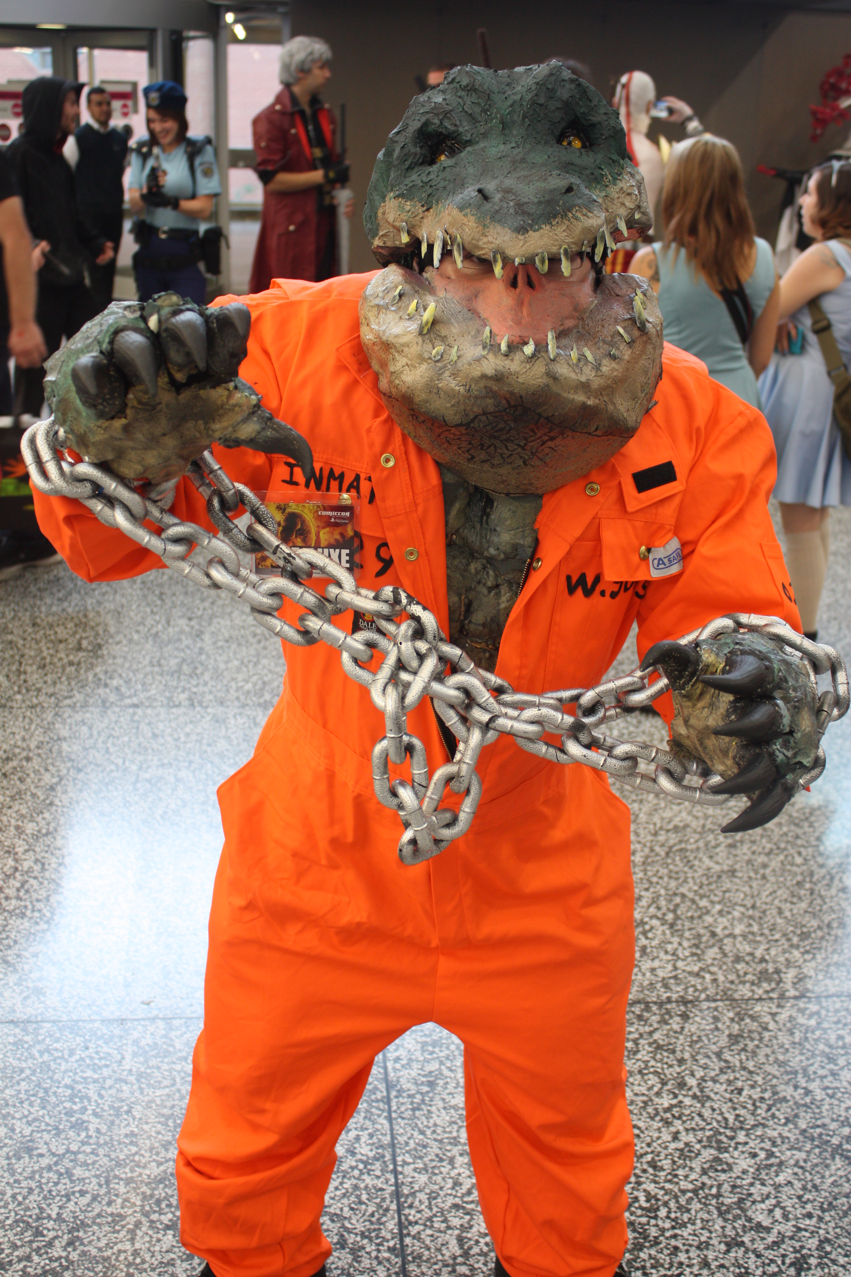 Cosplay of Killer Croc, 2014.